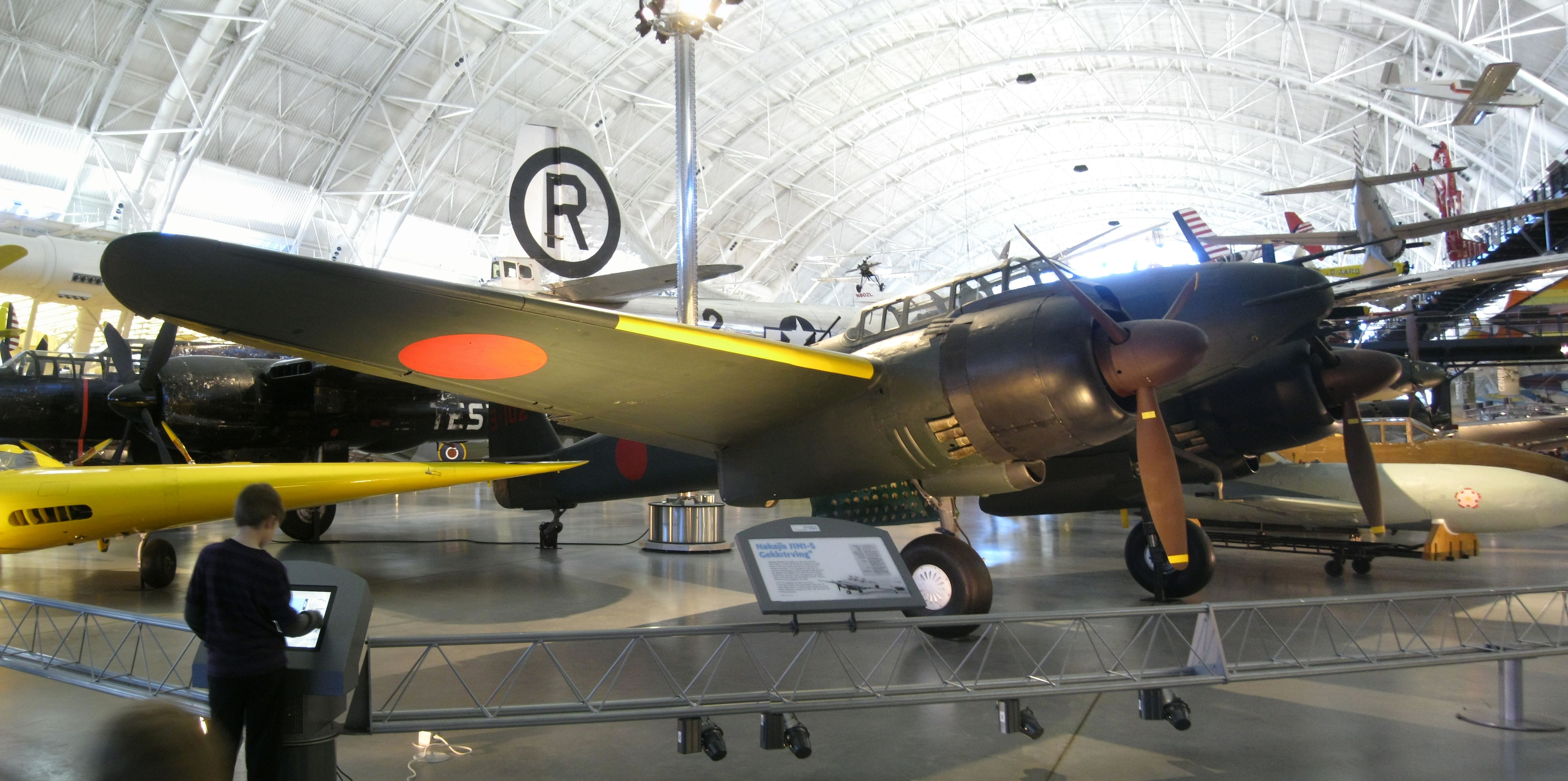 Nakajima J1N1-S Gekko (Moonlight) Navy land based night fighter on display at the Steven F. Udvar-Hazy Center